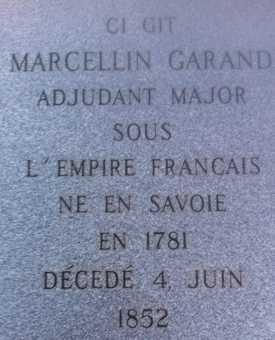 This is the cemetery headstone of Marcellin Garand.